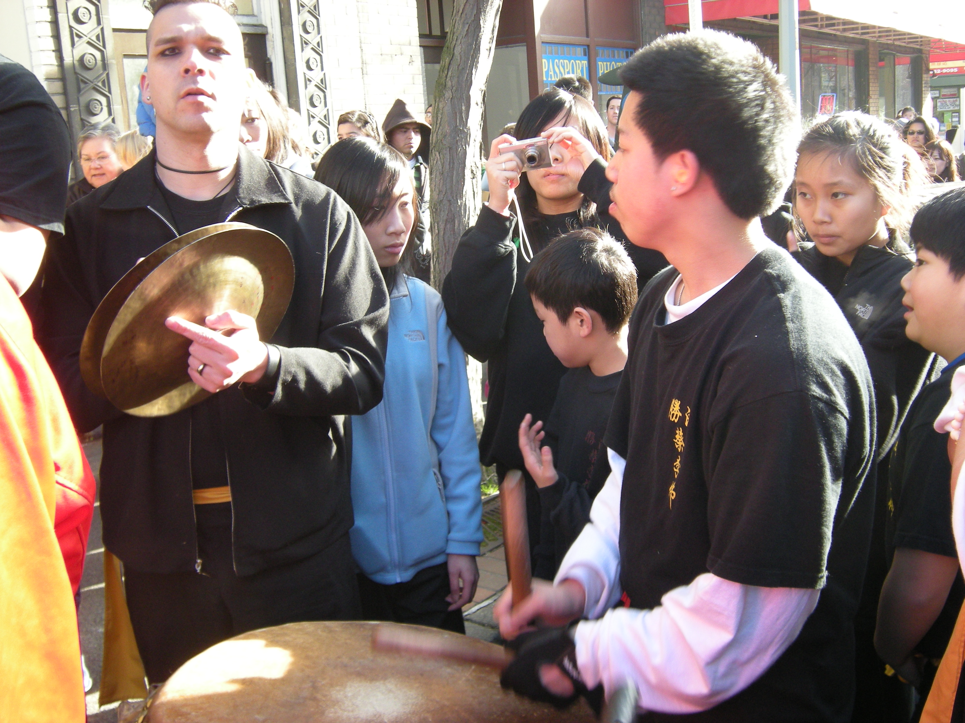 Playing cymbals to accompany lion dancers at Chinese New Year, International District, Seattle, Washington.